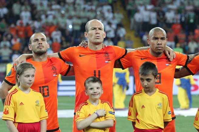 Wesley Sneijder, Arjen Robben and Nigel de Jong before Euro 2012 match Netherlands-Germany